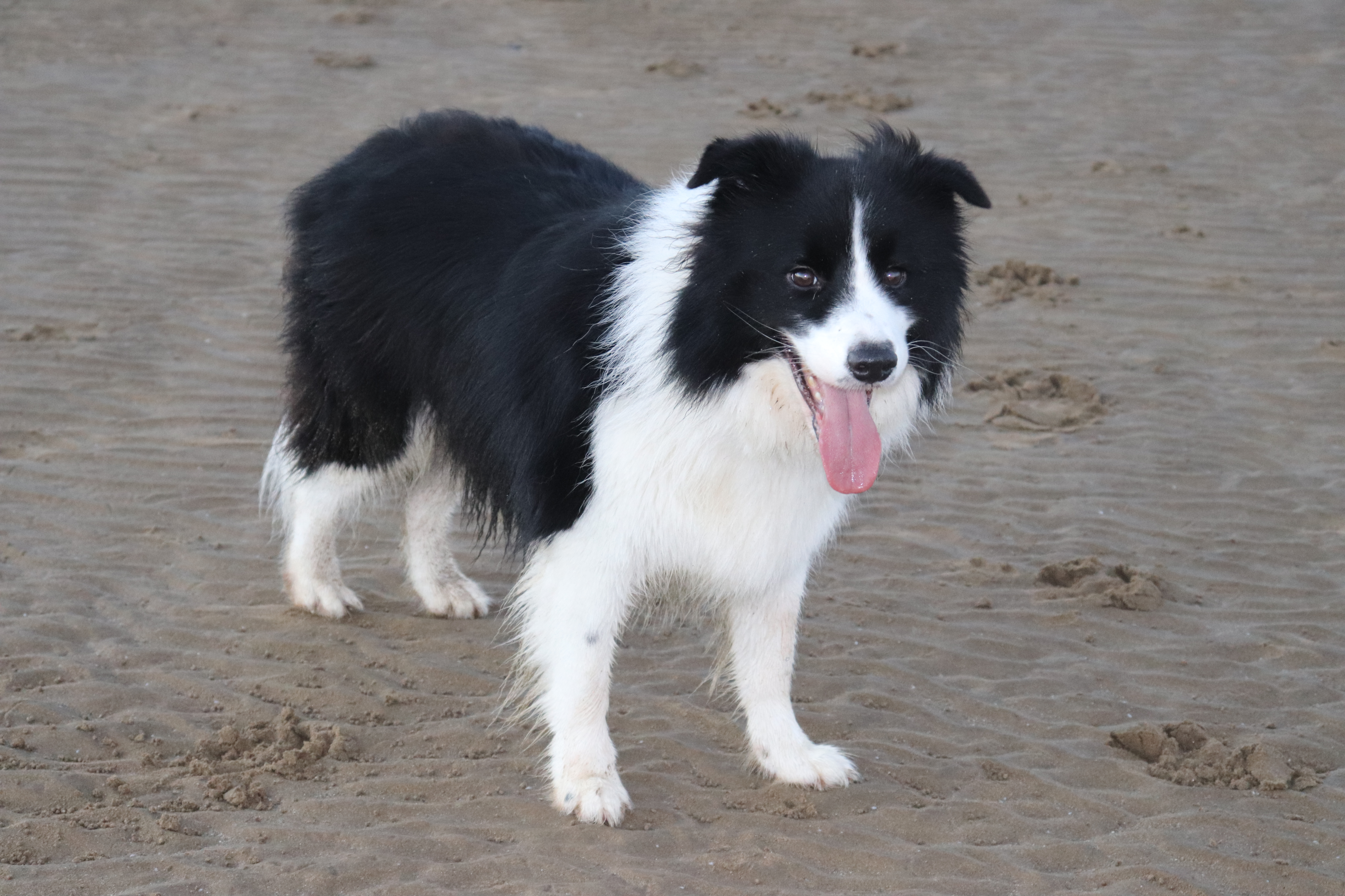 Border collie